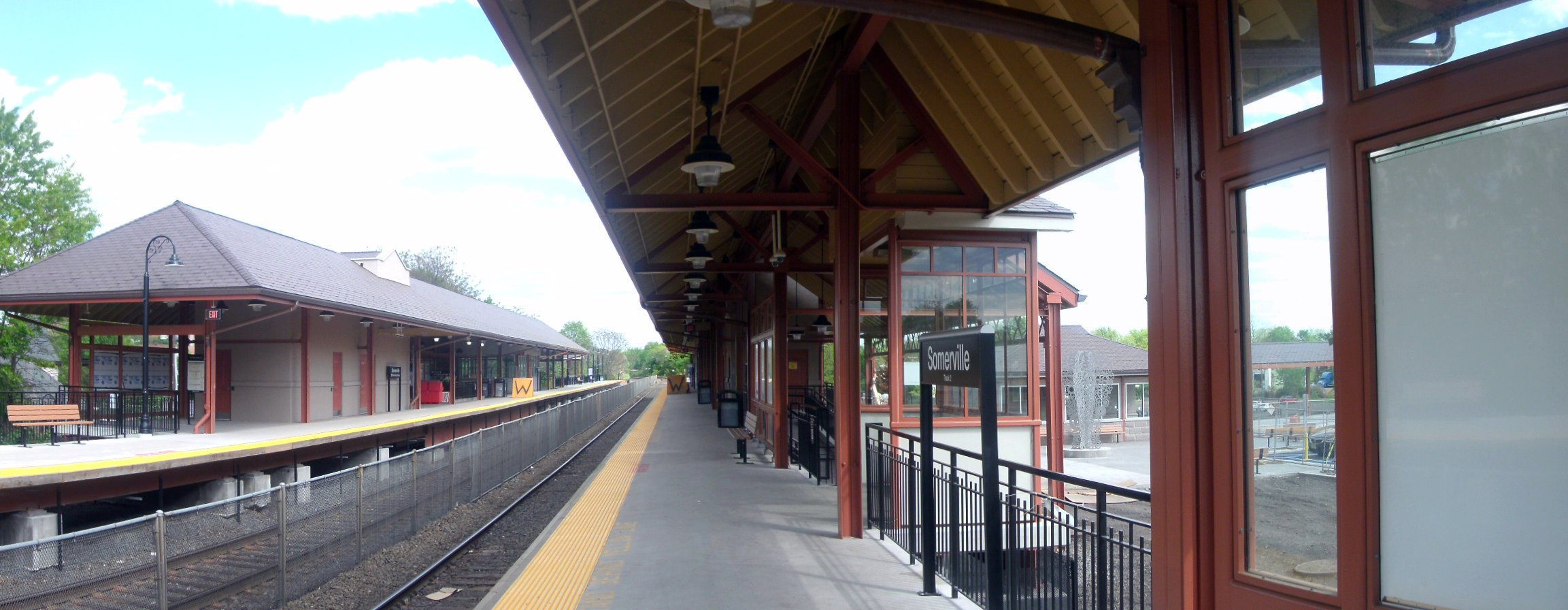 Construction of the new High Level platforms at Somerville's New Jersey Transit is nearing completion, as viewed from the Newark-bound platform.